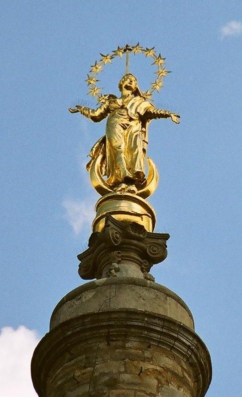 Sculpture of Mother Mary on top of the minaret by the Cathedral of St. Peter and Paul in Kamianets-Podilskyi. The minaret was erected by Turks, when the church has been used as a mosque. After city's return to Poland, according to the peace treaty, it couldn't have been demolished. The Kamianets Cathedral is the only catholic church in the world with a minaret.